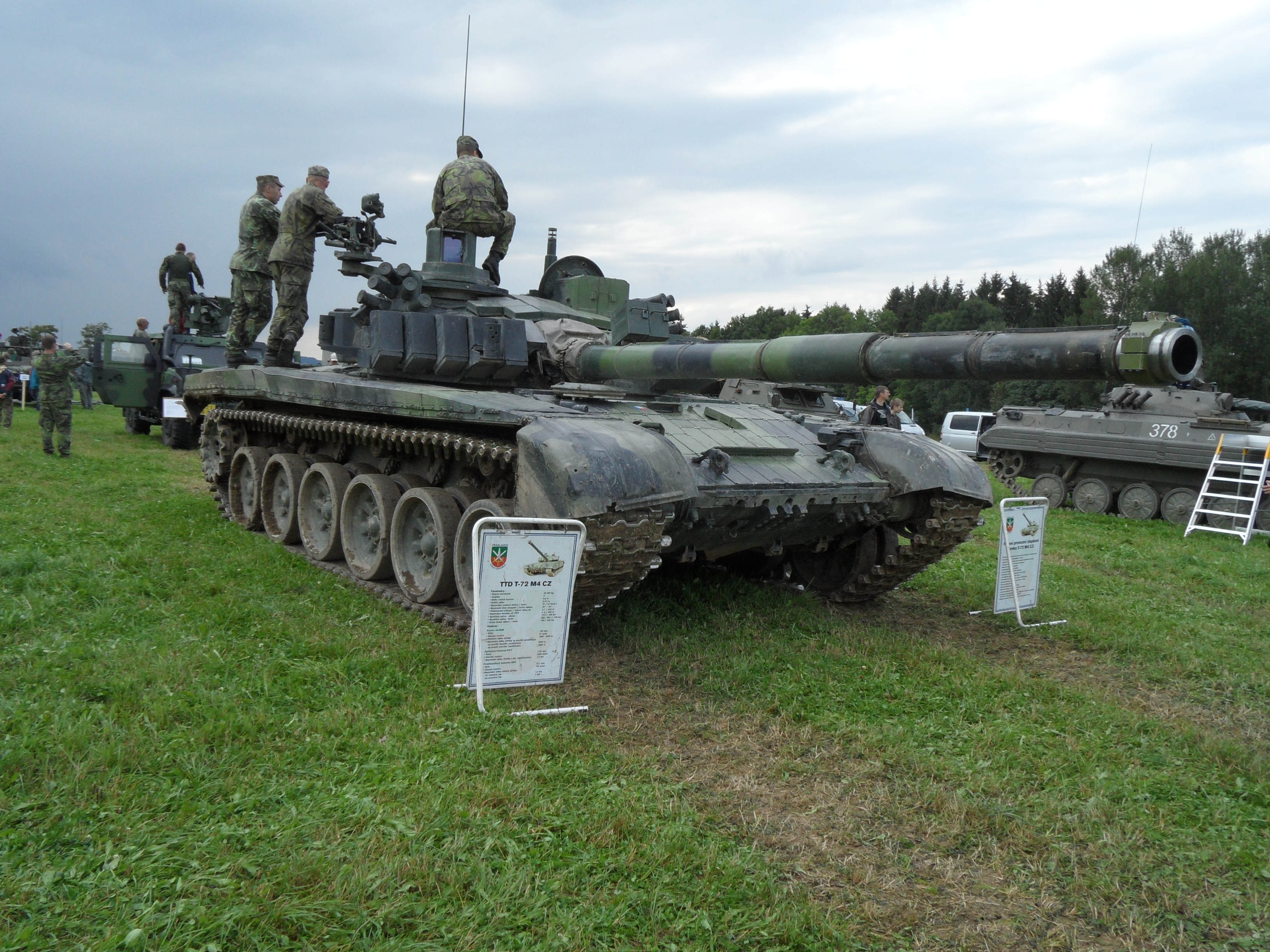 Akce Cihelna 2014 H08. Static Presentations: Modernised Tank T-72 M4 CZ (Přáslavice), Králíky, Ústí nad Orlicí District, the Czech Republic.